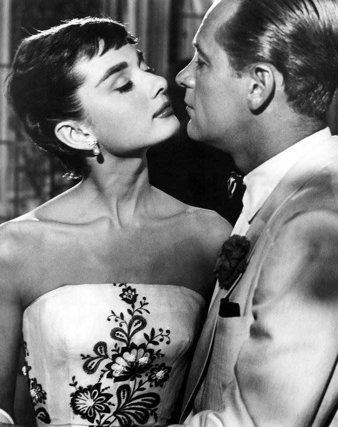 Studio publicity portrait for film Sabrina with William Holden and Audrey Hepburn.